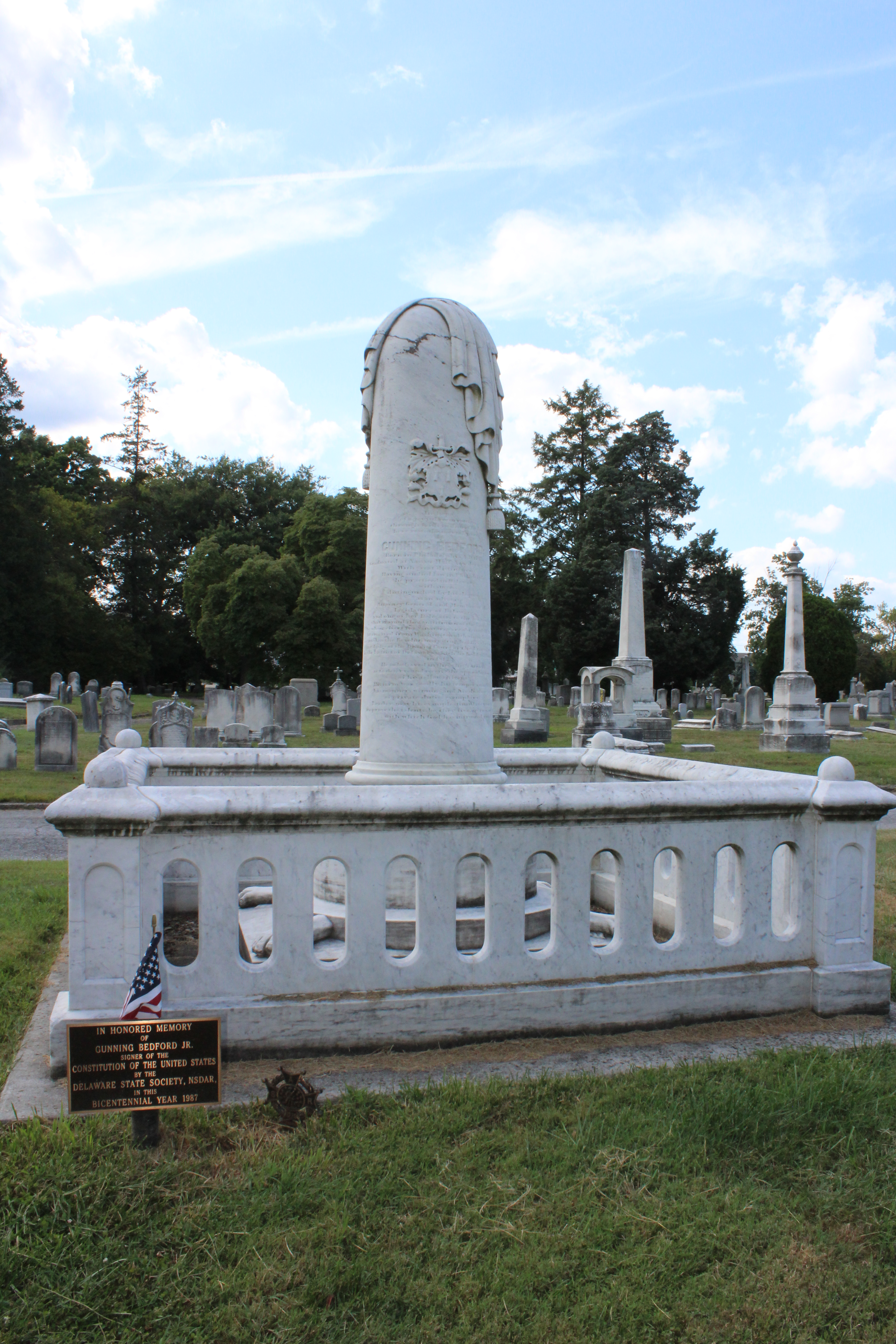 Gunning Bedford Jr. Memorial at Wilmington and Brandywine Cemetery in Wilmington, Delaware. Photo taken August 2019.